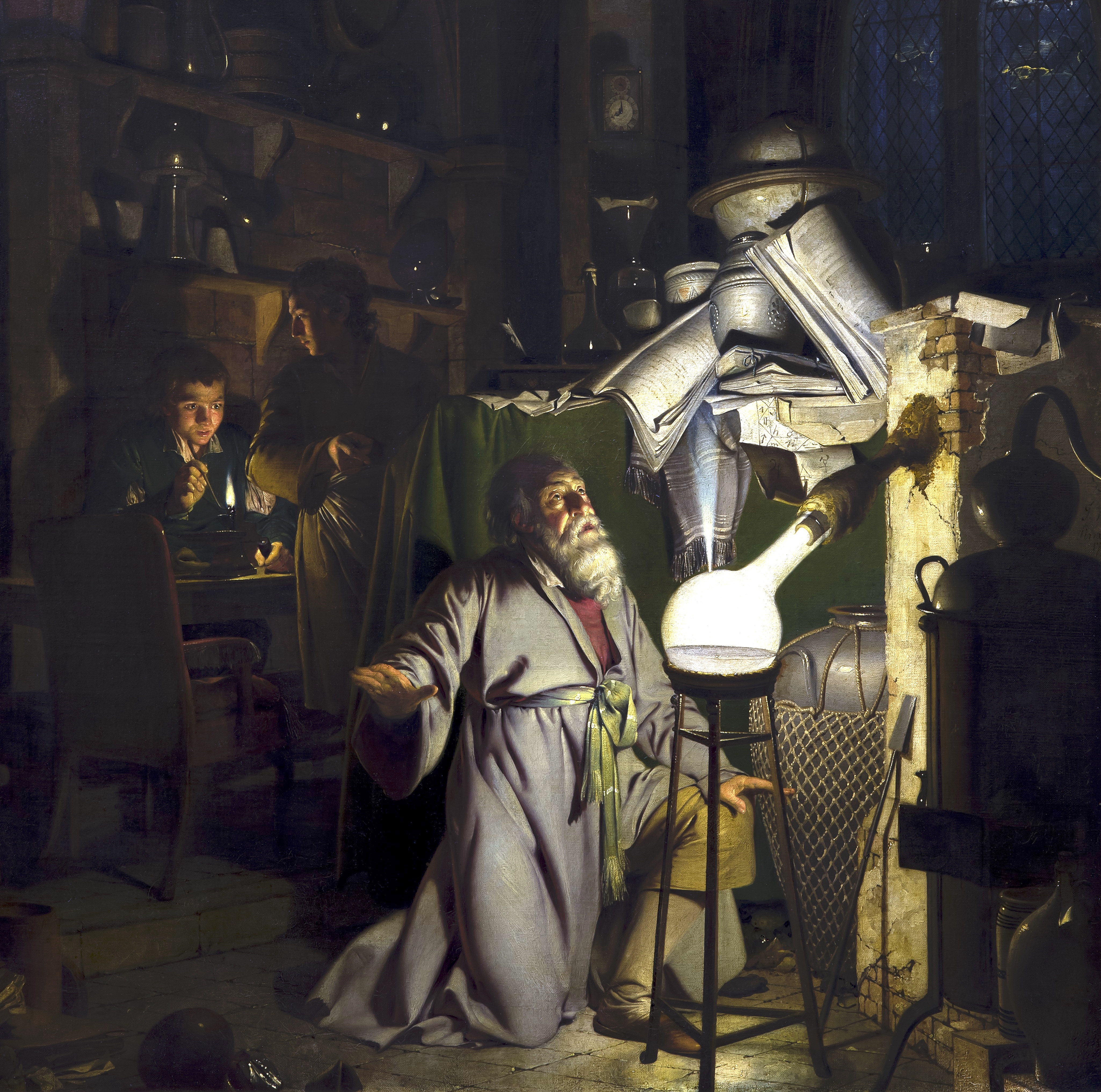 the painting illustrates the discovery of phosphorus by Hennig Brand in 1669.